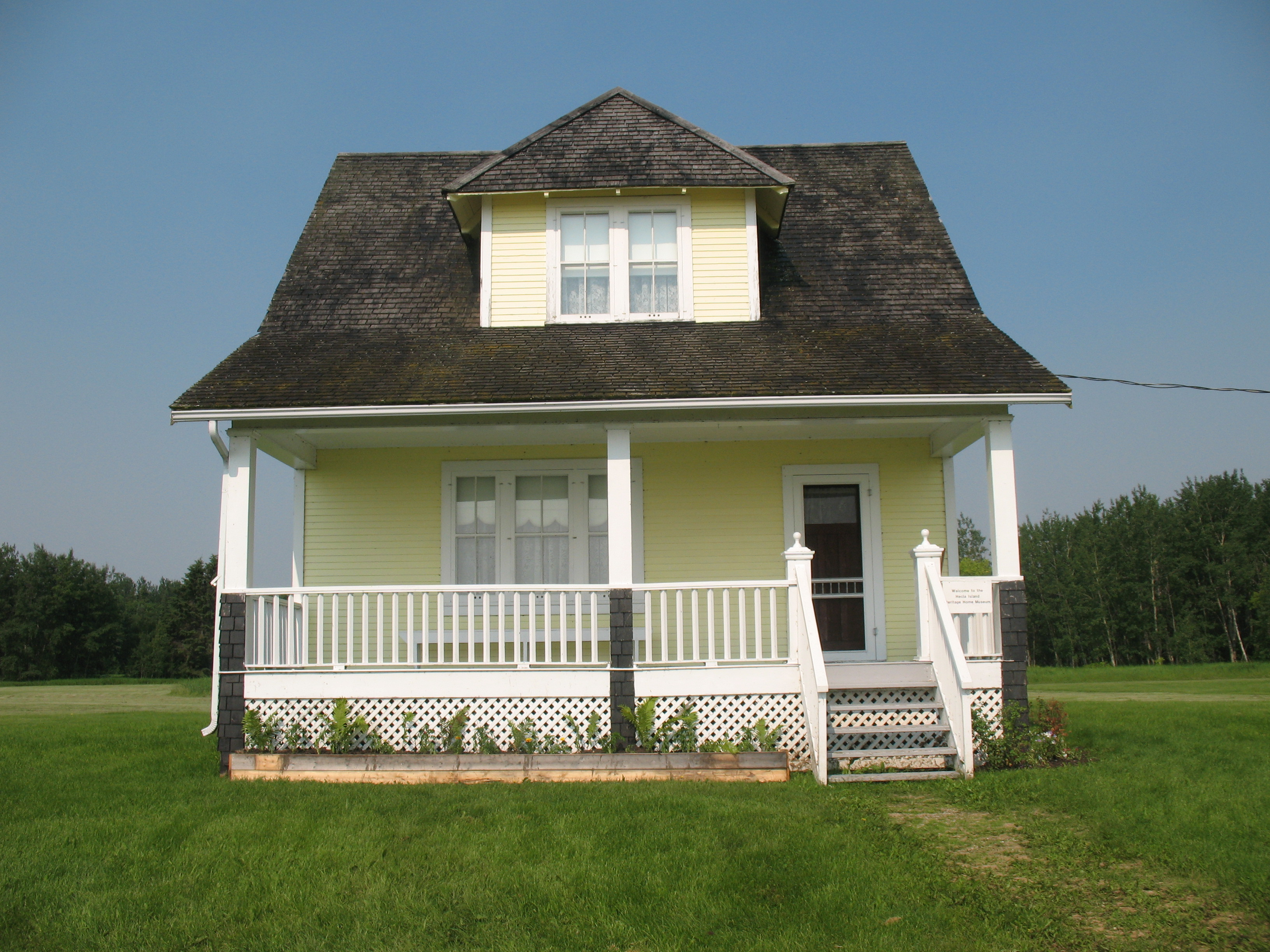 Hecla Island Heritage Museum, Hecla Island, Manitoba